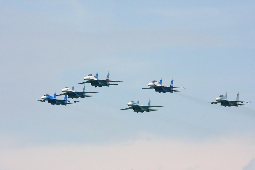 Falcons of Russia aerobatic team from Lipetsk Air Base